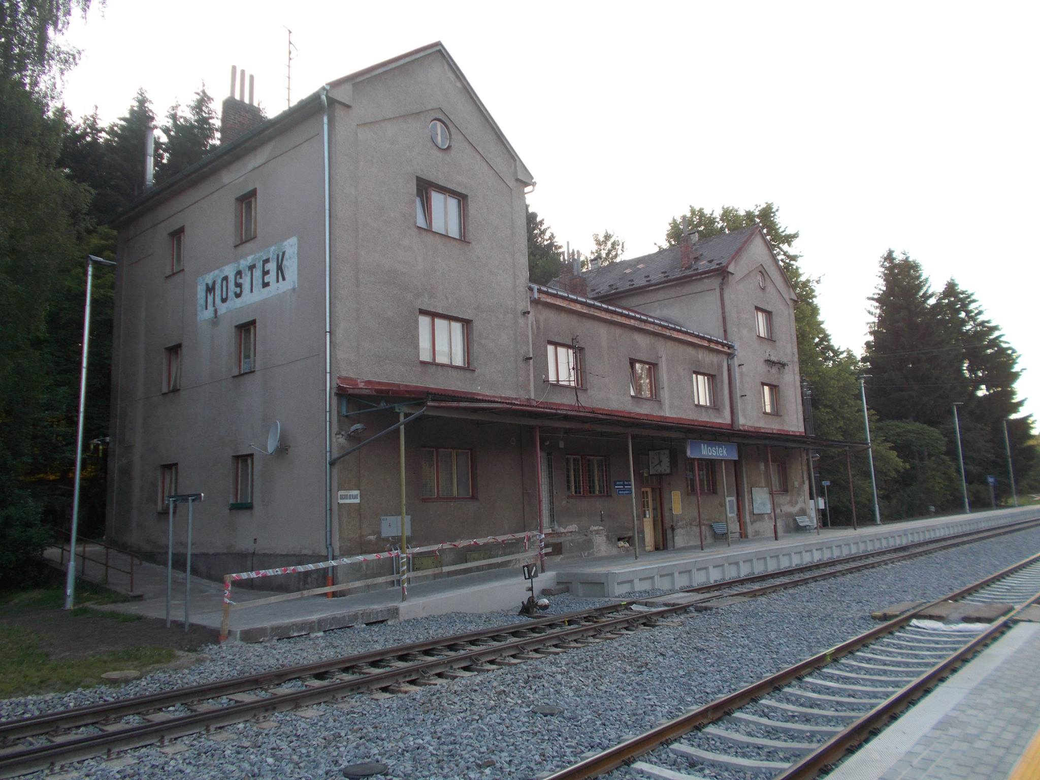 Mostek train station - main building